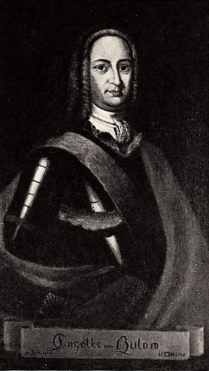 Engelke von Bülow (1691-1740), Danish district officer, Supreme Court judge, and hofmarskal (Lord Chamberlain)